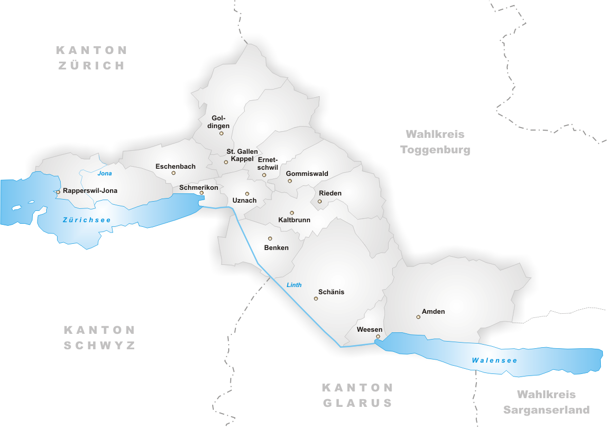 Municipalities of District See-Gaster